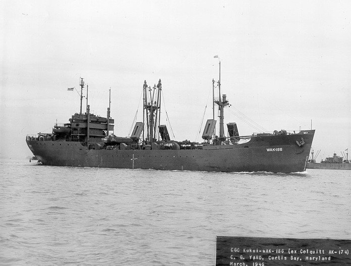 USCGC Kukui (WAK-186) underway off the Coast Guard Yard at Curtis Bay, MD., 16 March 1946. Kukui was one of two ships of this class transferred to the Coast Guard in 1946.